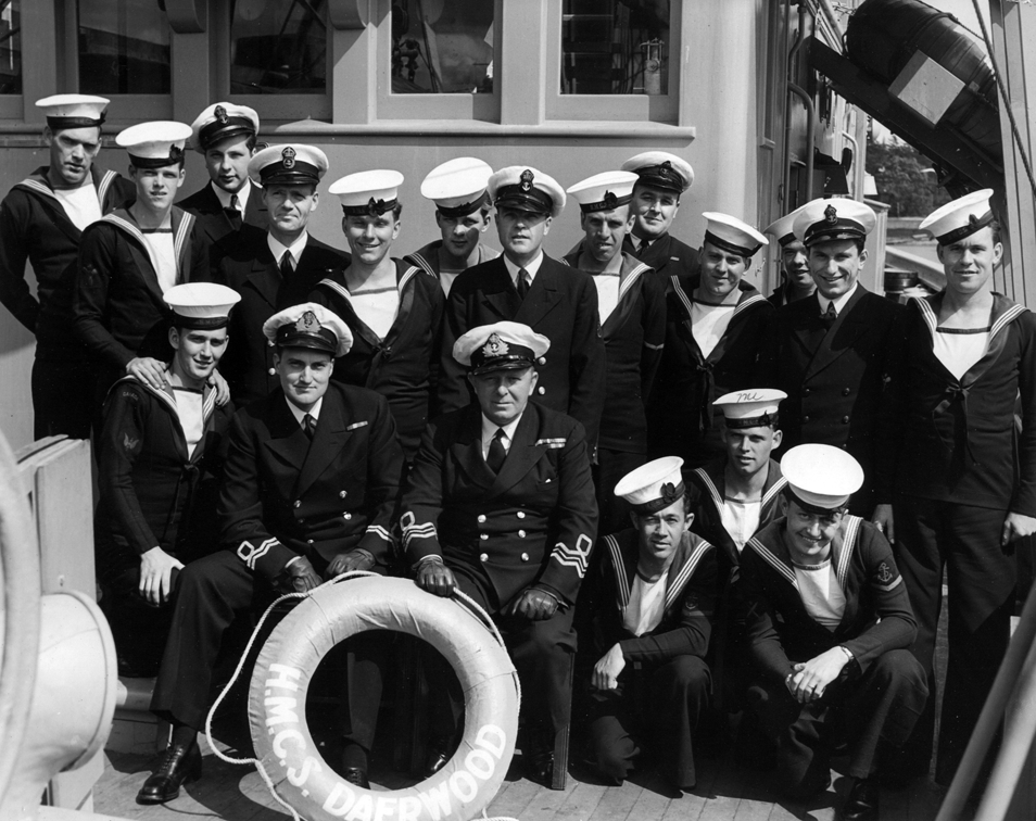 Royal Canadian Naval Photograph, Negative No. unknown, Crew of Minesweeper HMCS Daerwood, 1944 Scanned from 8"x10" B&W photo, Scanmaker X12USB, VueScan Pro, Mac Quicksilver OS 10.4 From my late father's wartime scrapbook.